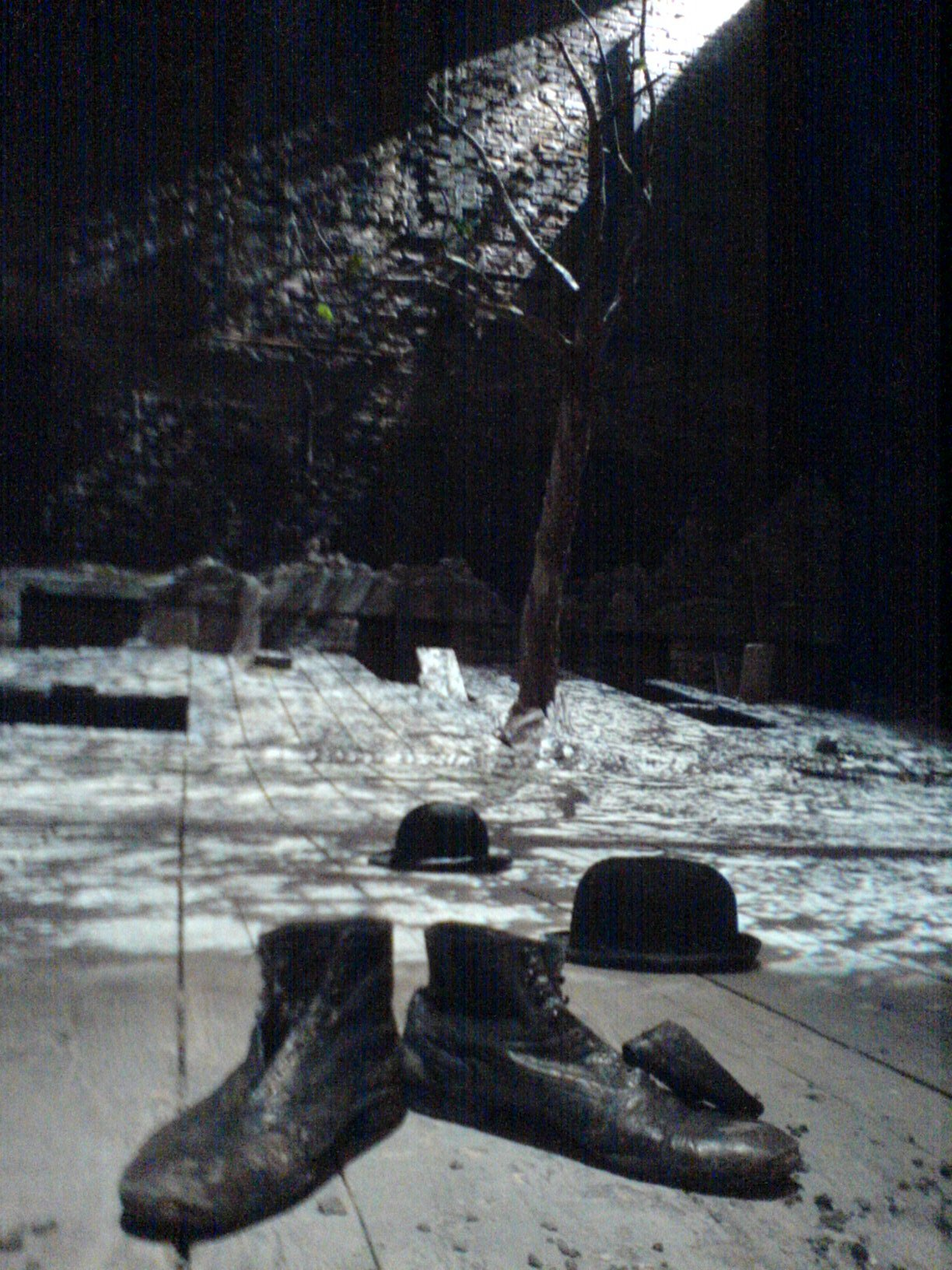 Waiting for Godot set at Theatre Royal Haymarket 2009.